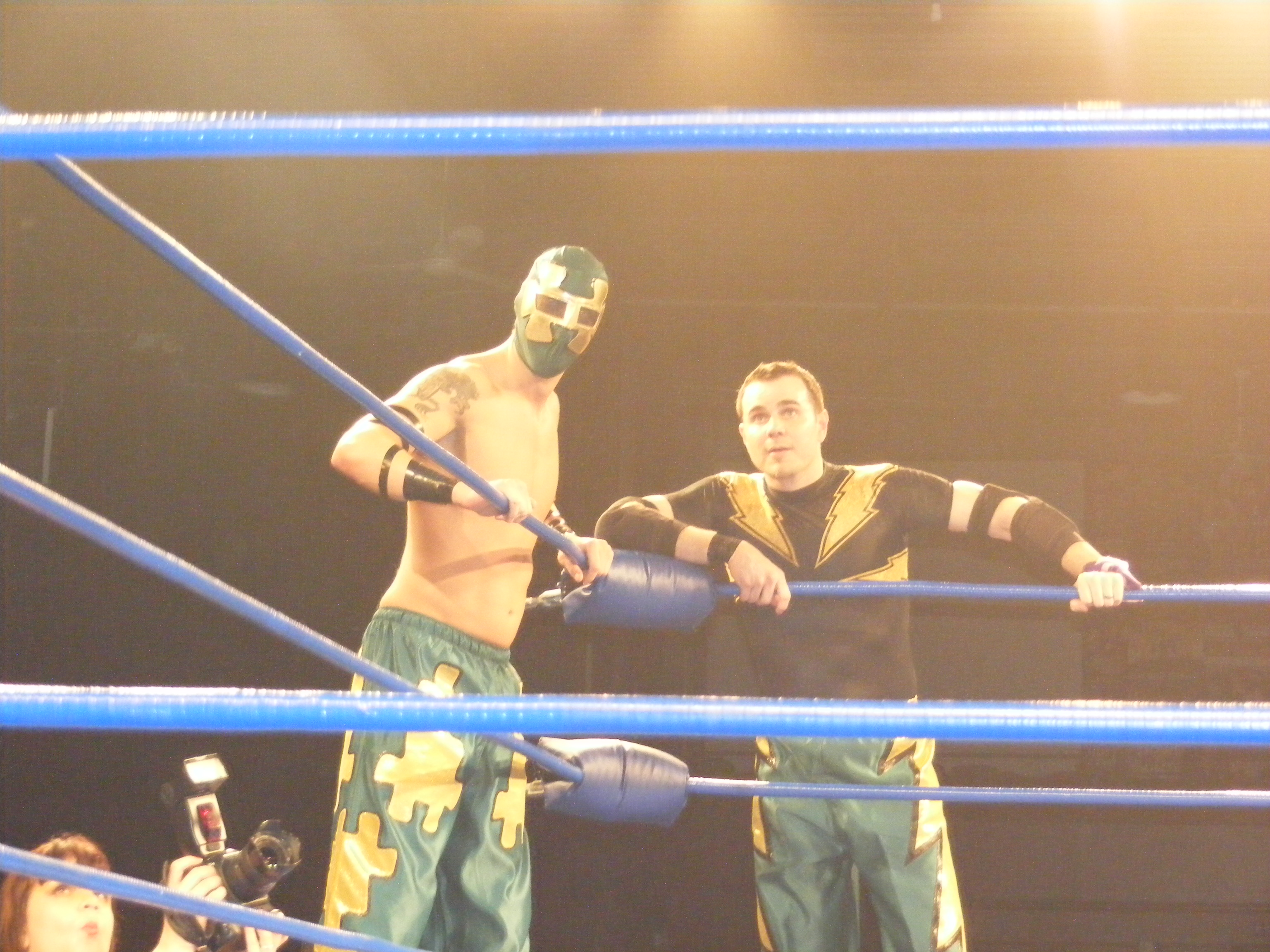 Professional wrestlers Mike Quackenbush and Jigsaw in April 2011.